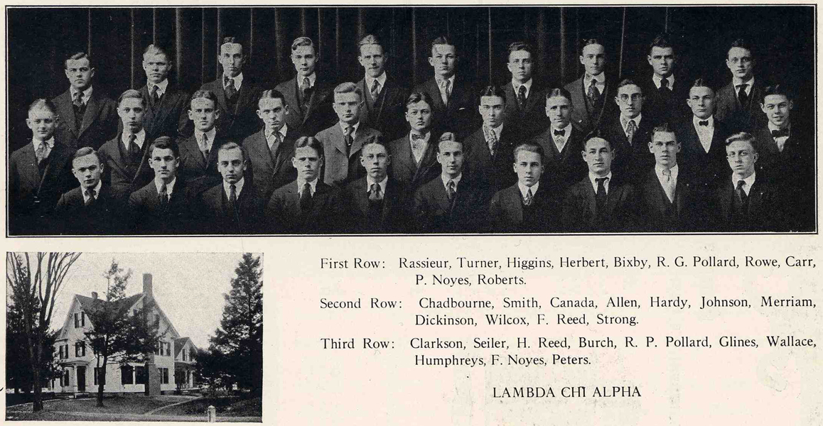 A photo of the members and physical plant of Lambda Chi Alpha, a fraternity at Dartmouth College. See Dartmouth College Greek organizations.